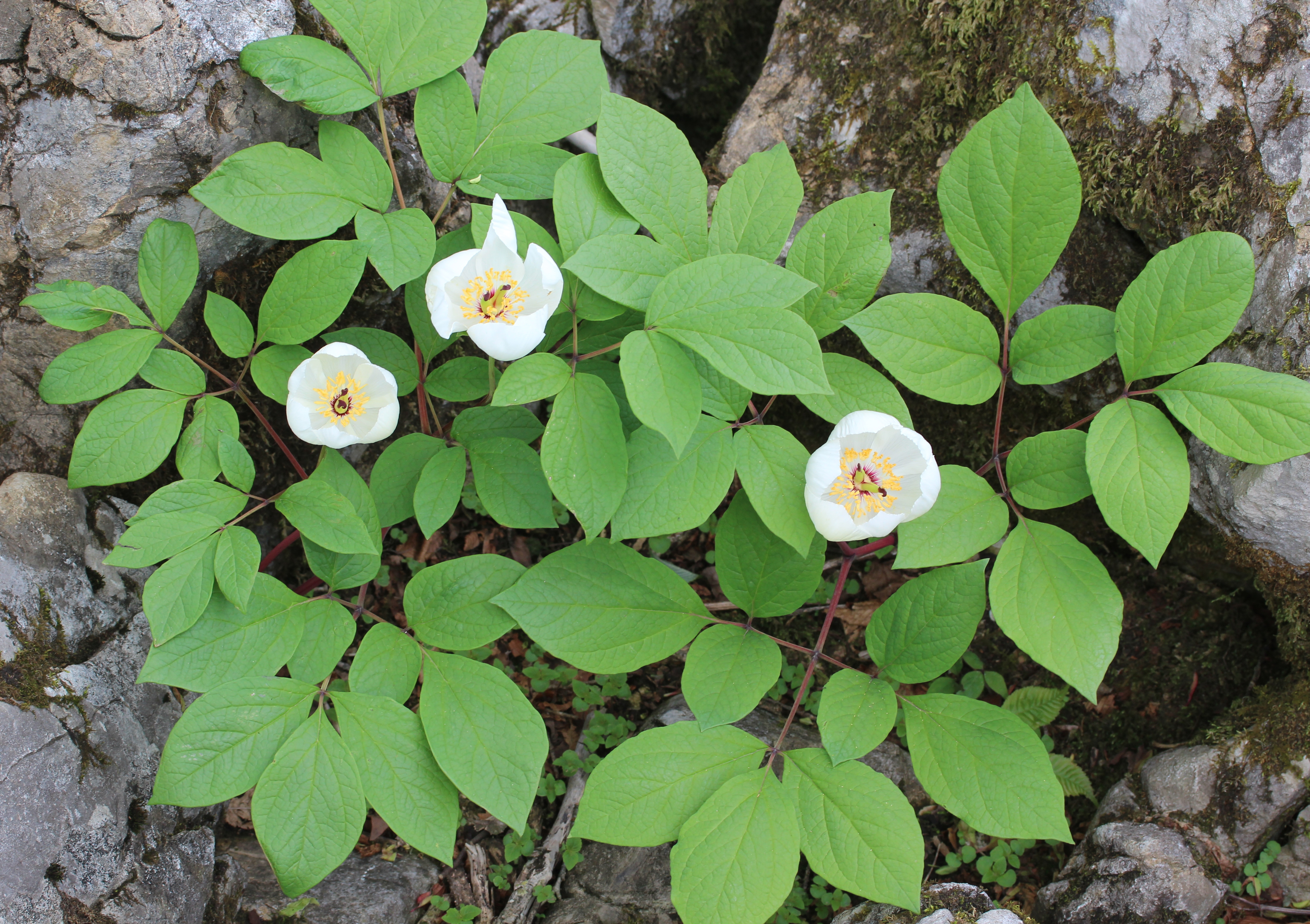 Paeonia japonica in Mount Ryozen of Suzuka Mountains, Japan.